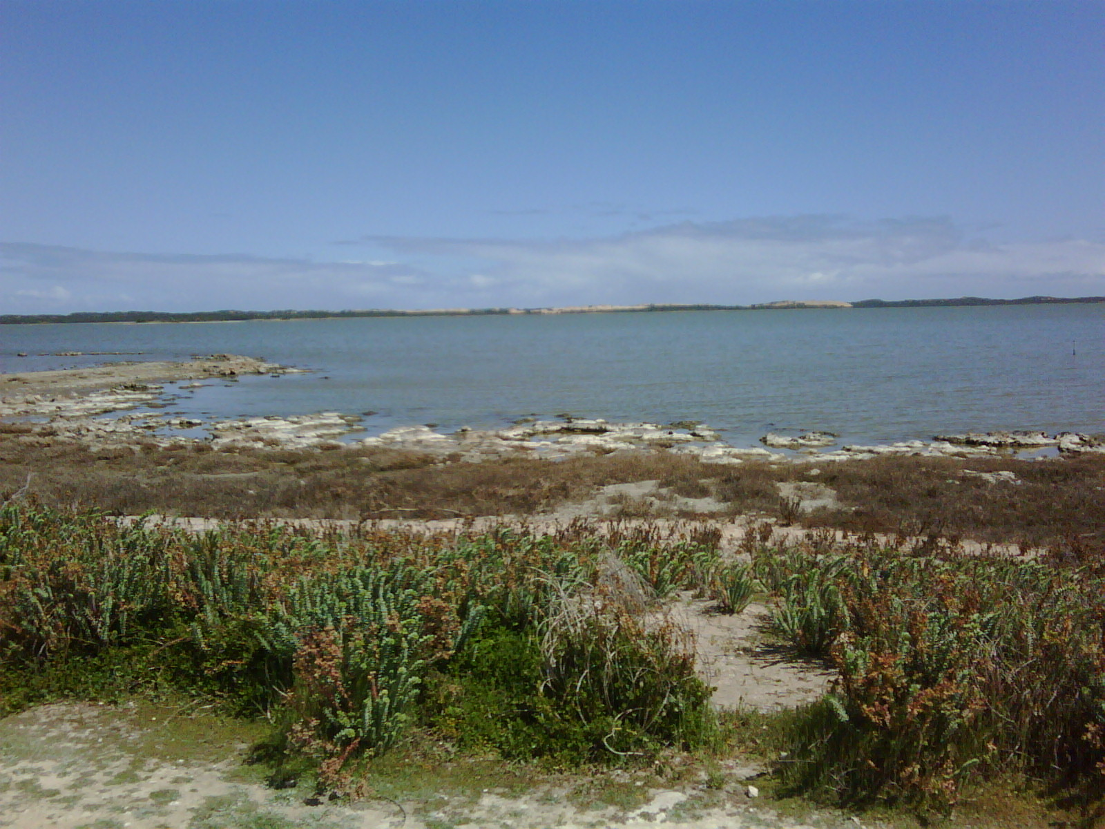 The Coorong looking across near its mid-point at Salt Creek